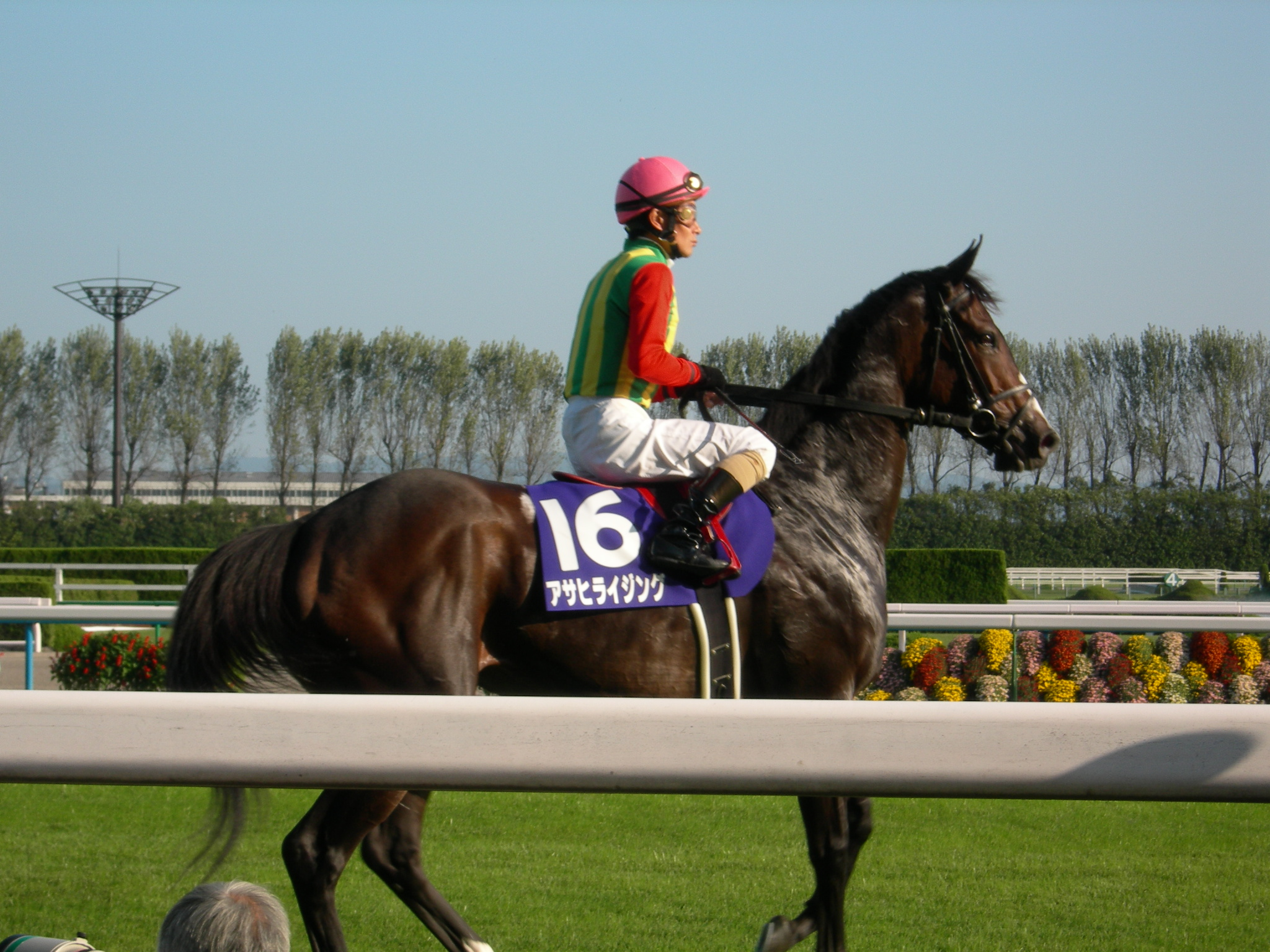 Asahi Rising (Racehorse of Japan). taken in 2006.